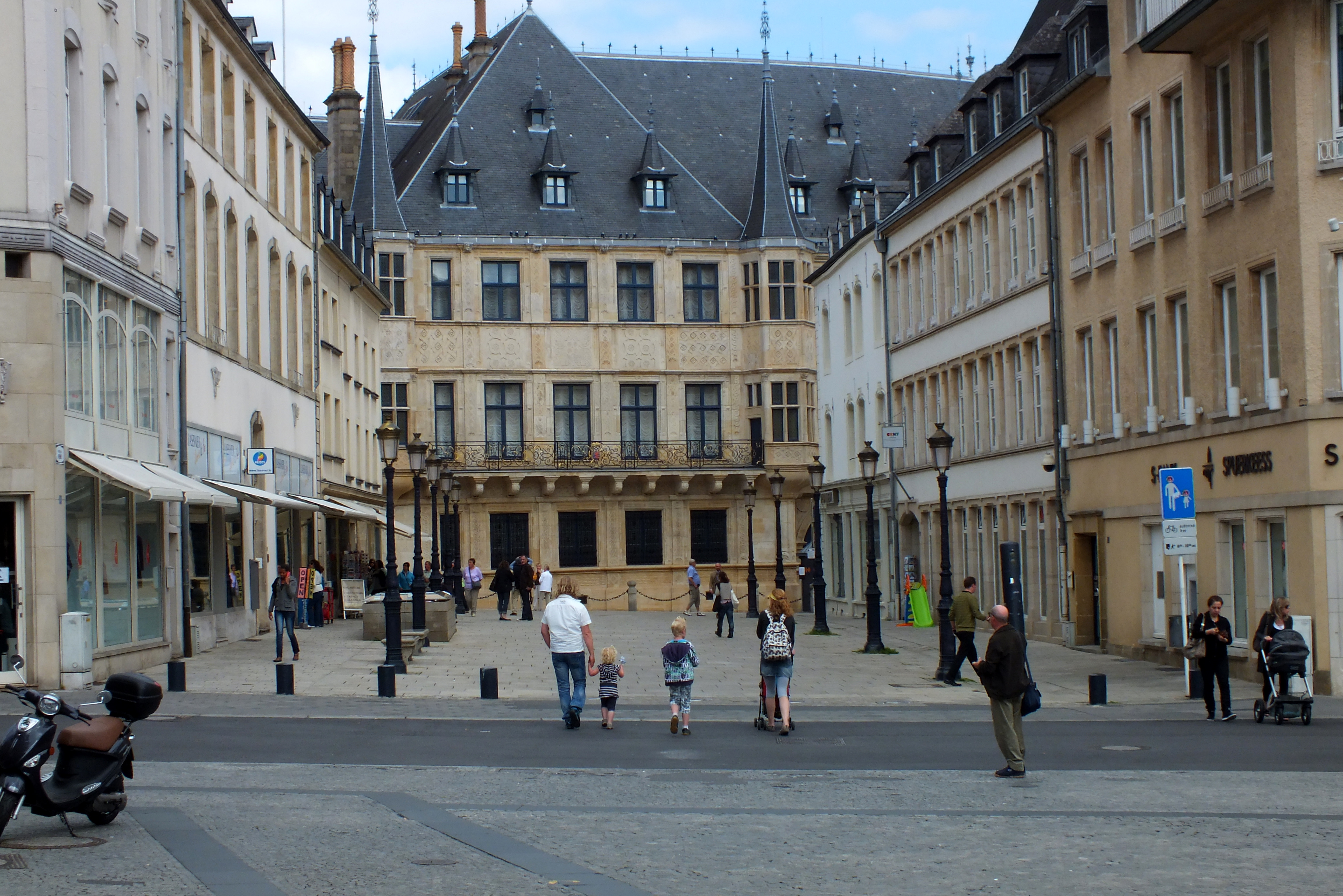 Rue de la Reine in Luxembourg City.